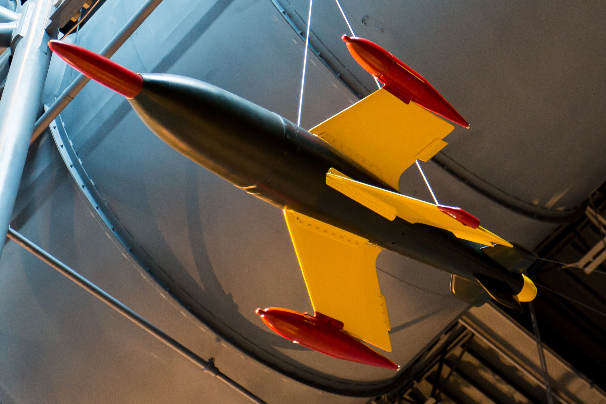 A Ruhrstahl X-4 on display at the Smithsonian National Air and Space Museum Udvar-Hazy Center.